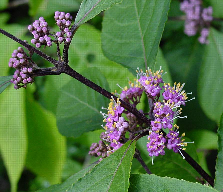 Beautyberry